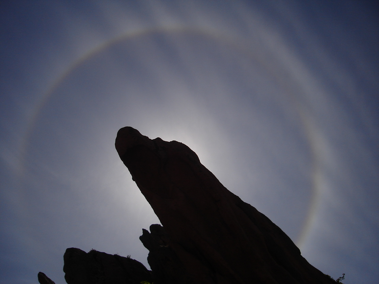 22° halo over Corsica (Calanche), created on 1st of June, 2007.